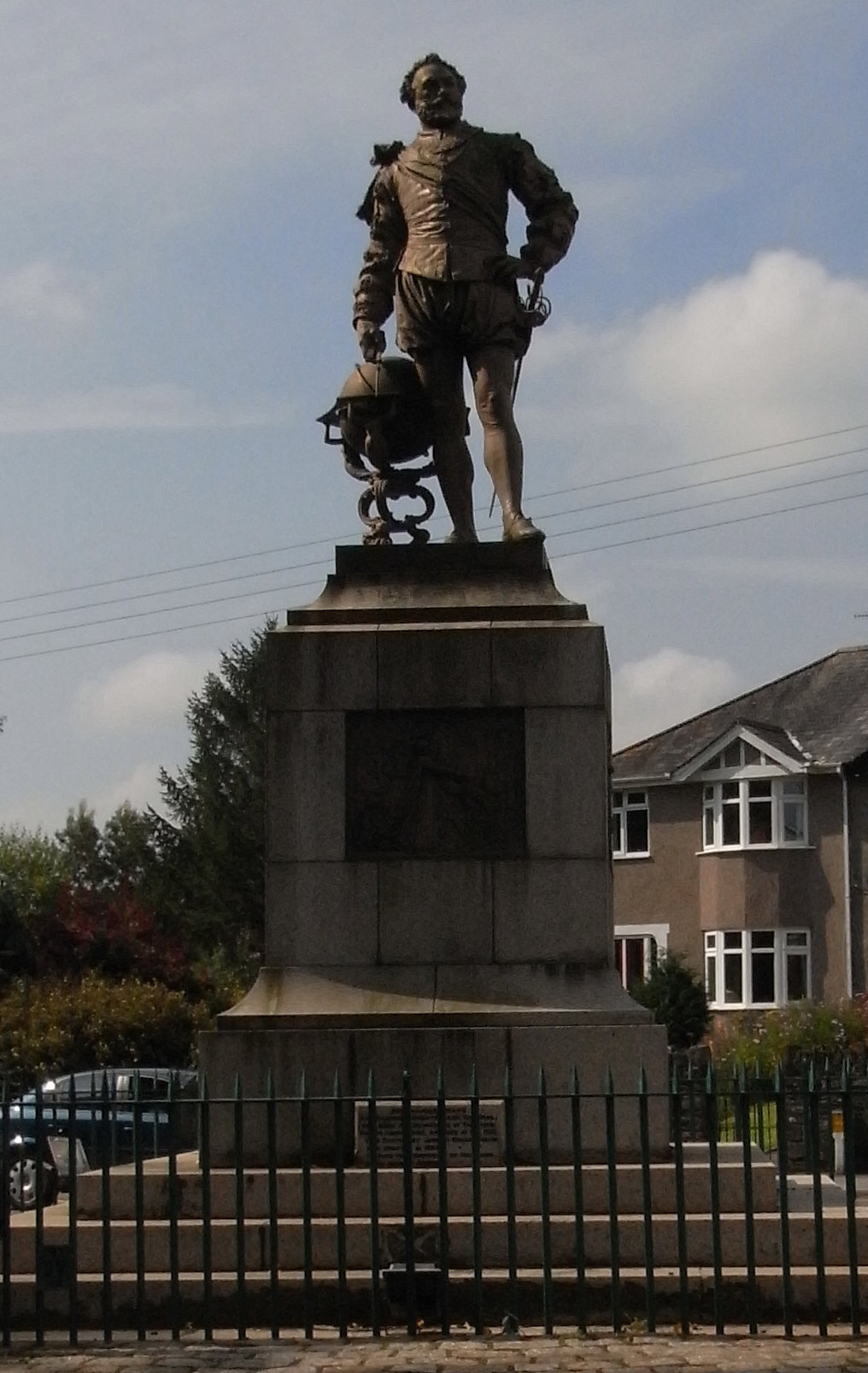 Bronze statue of Sir Francis Drake in Tavistock, Devon. By Joseph Boehm(d.1890), donated by Hastings Russell, 9th Duke of Bedford(d.1891)